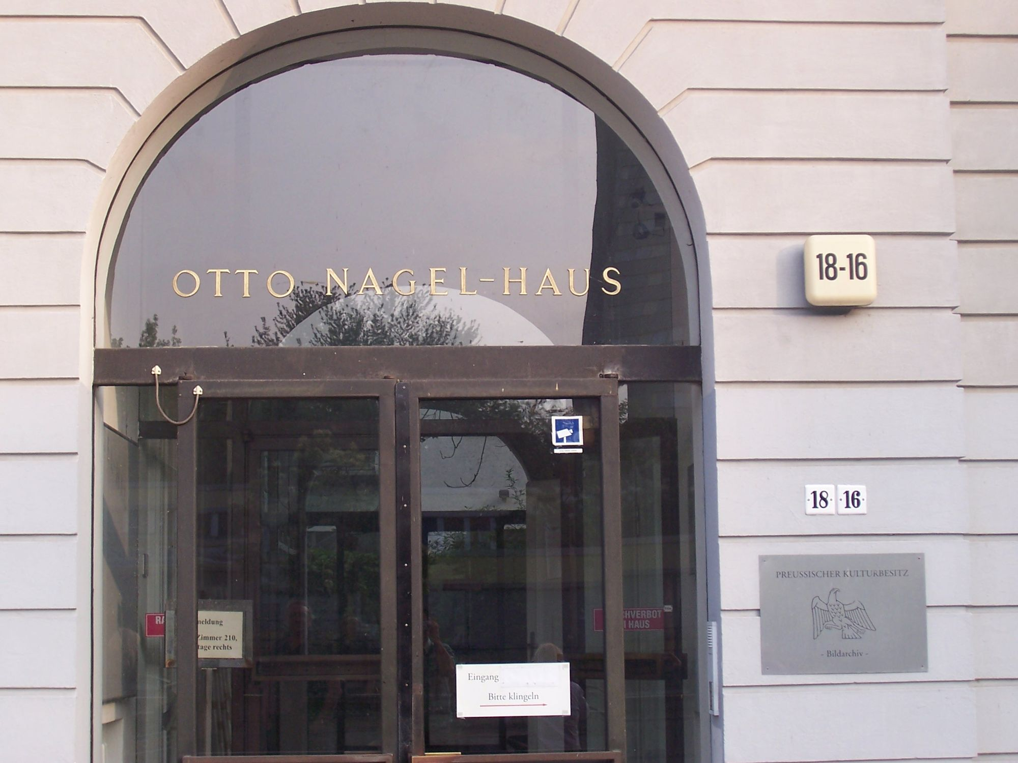 entrance of the Otto-Nagel-Haus at the Märkisches Ufer in Berlin, since 1995 residence of the picture archive of the Prussian Cultural Heritage Foundation